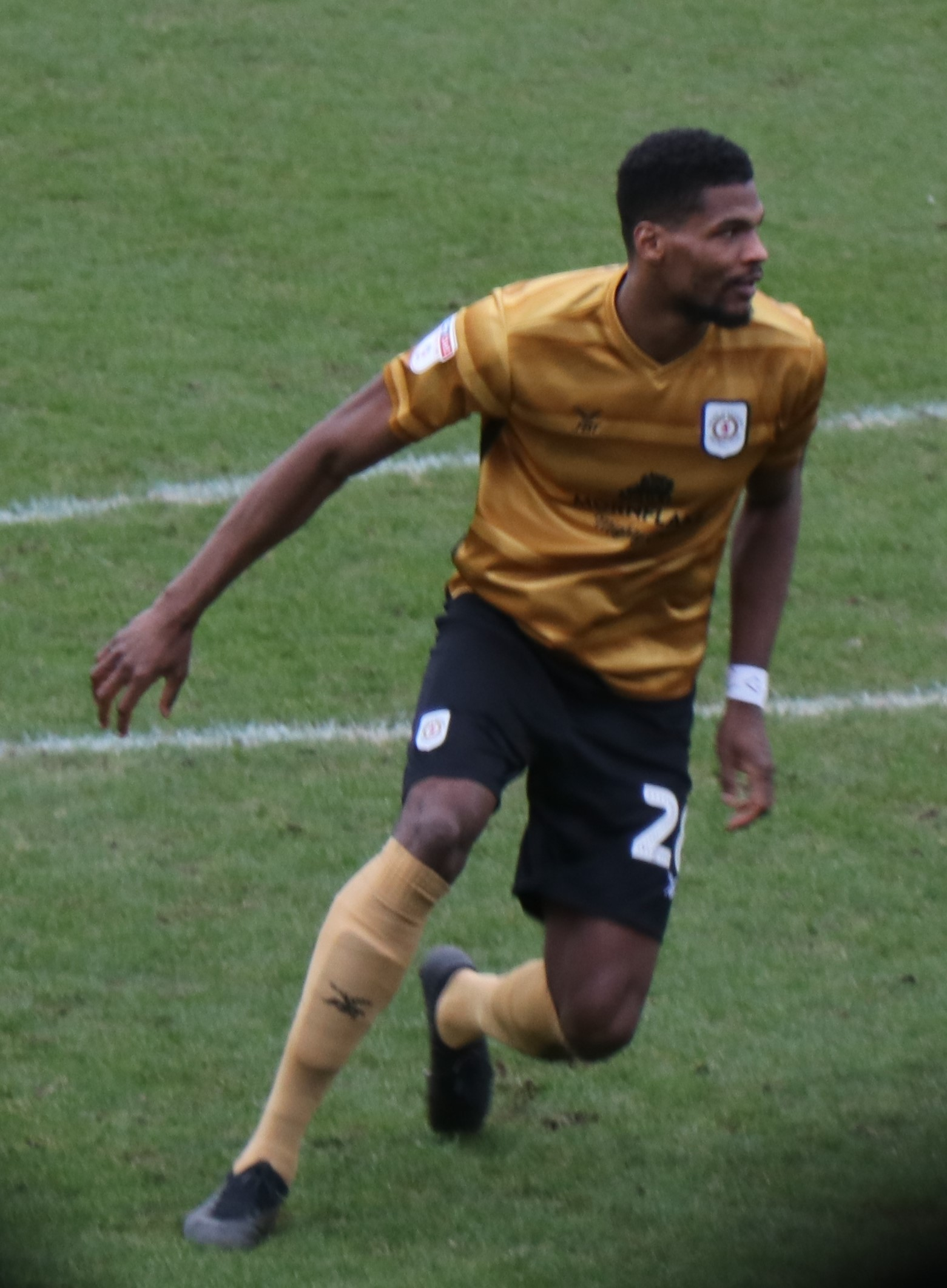 Association footballer Michael Nottingham playing for Crewe Alexandra